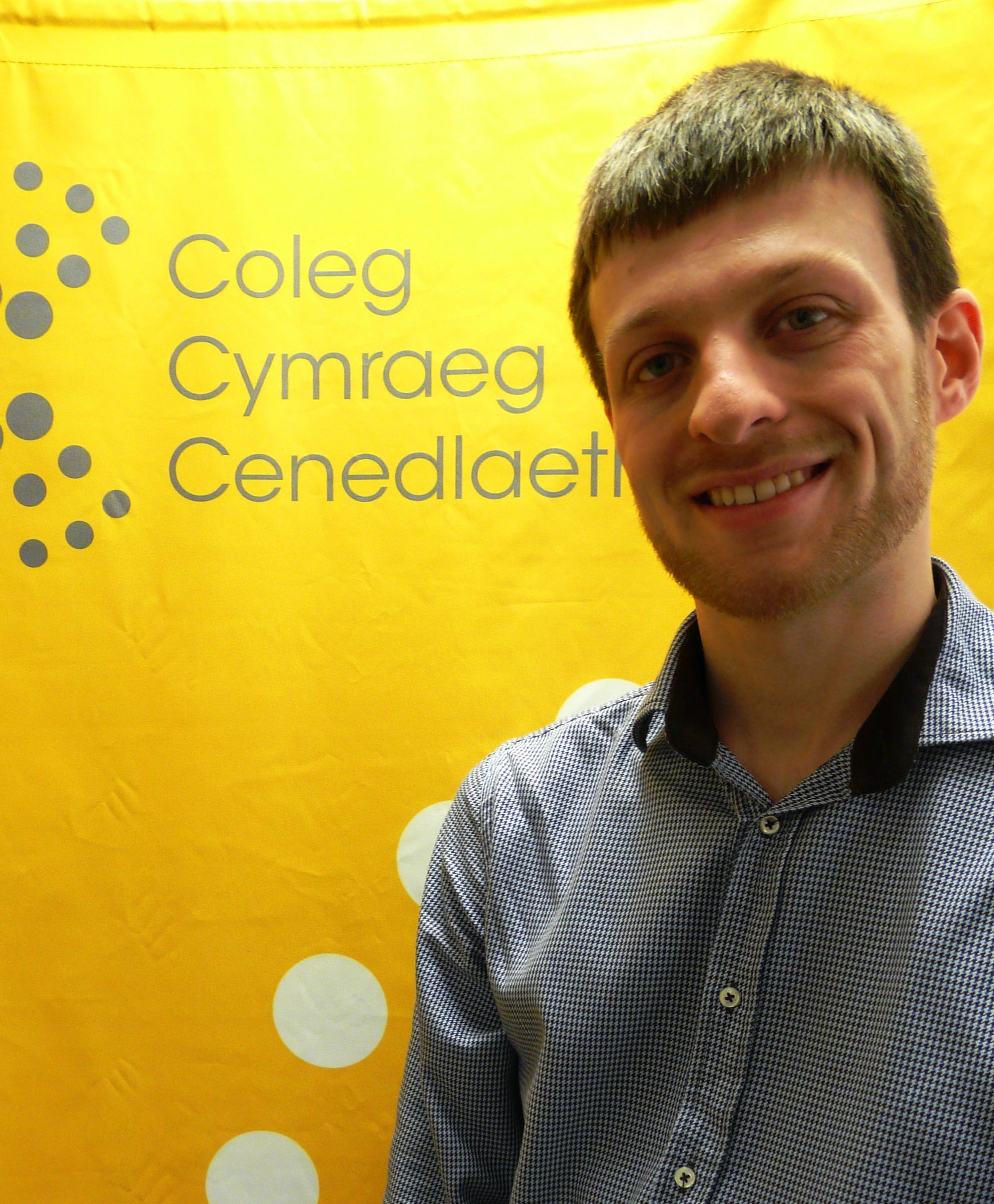 Marc Haynes, Wikipedia Co-ordinator at Y Coleg Cymraeg Cenedlaethol, May 2014